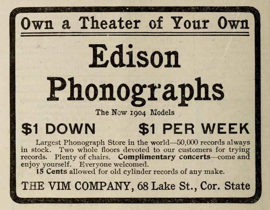 Advertisement for the Vim Company in 1903. Ad found in the program of the Grand Opera House, Chicago, Illinois, for the week of October 12, 1903.